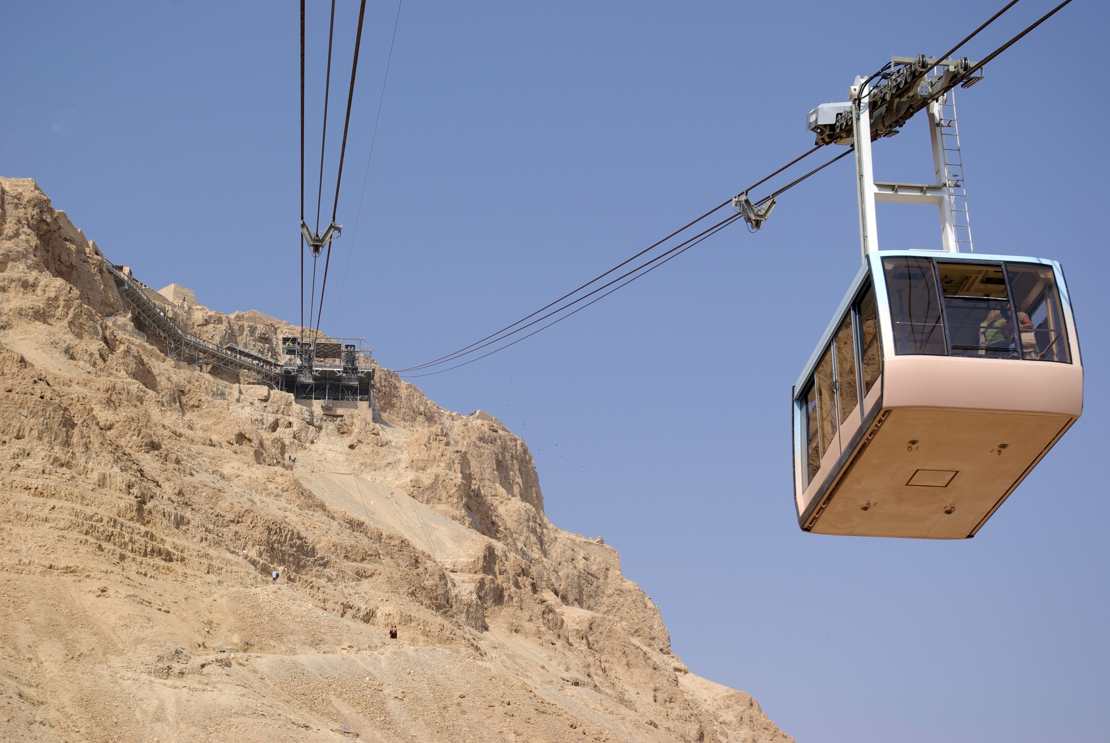 Photo of the aereal Ropeway leading to Masada in Israel.